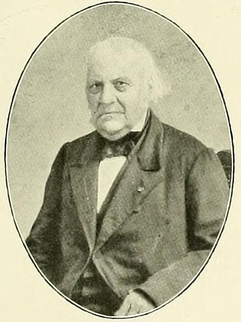 Portrait of the French botanist Antoine Laurent Apollinaire Fée